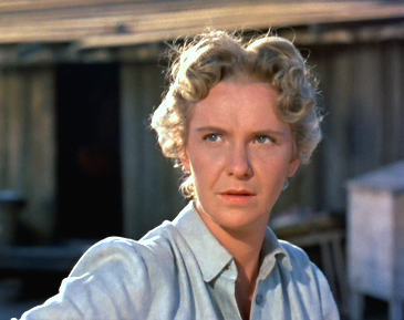 Geraldine Page in Hondo (1953)